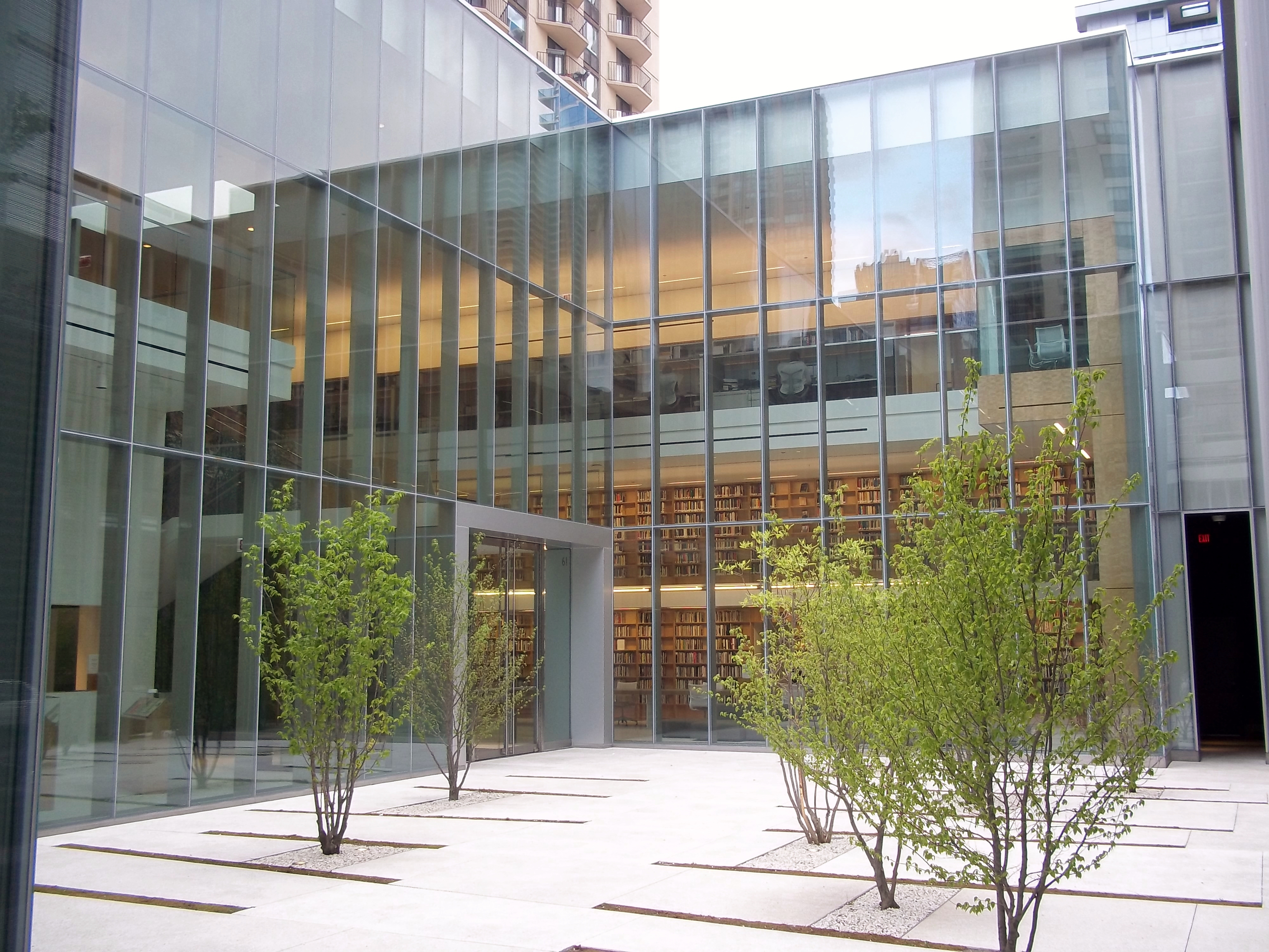 Poetry Foundation's Poetry Building in Chicago - Library and main entrance